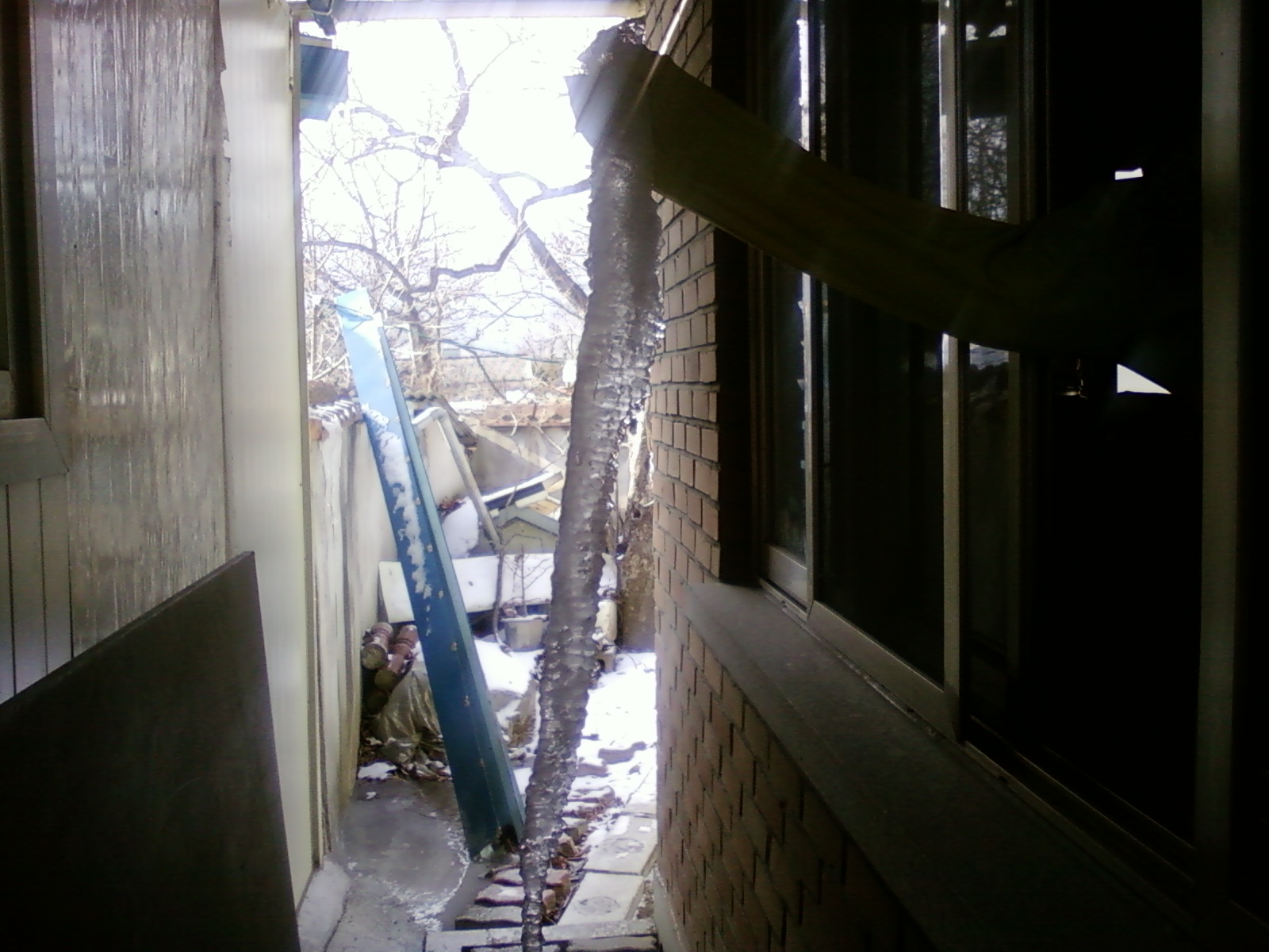 Icicle